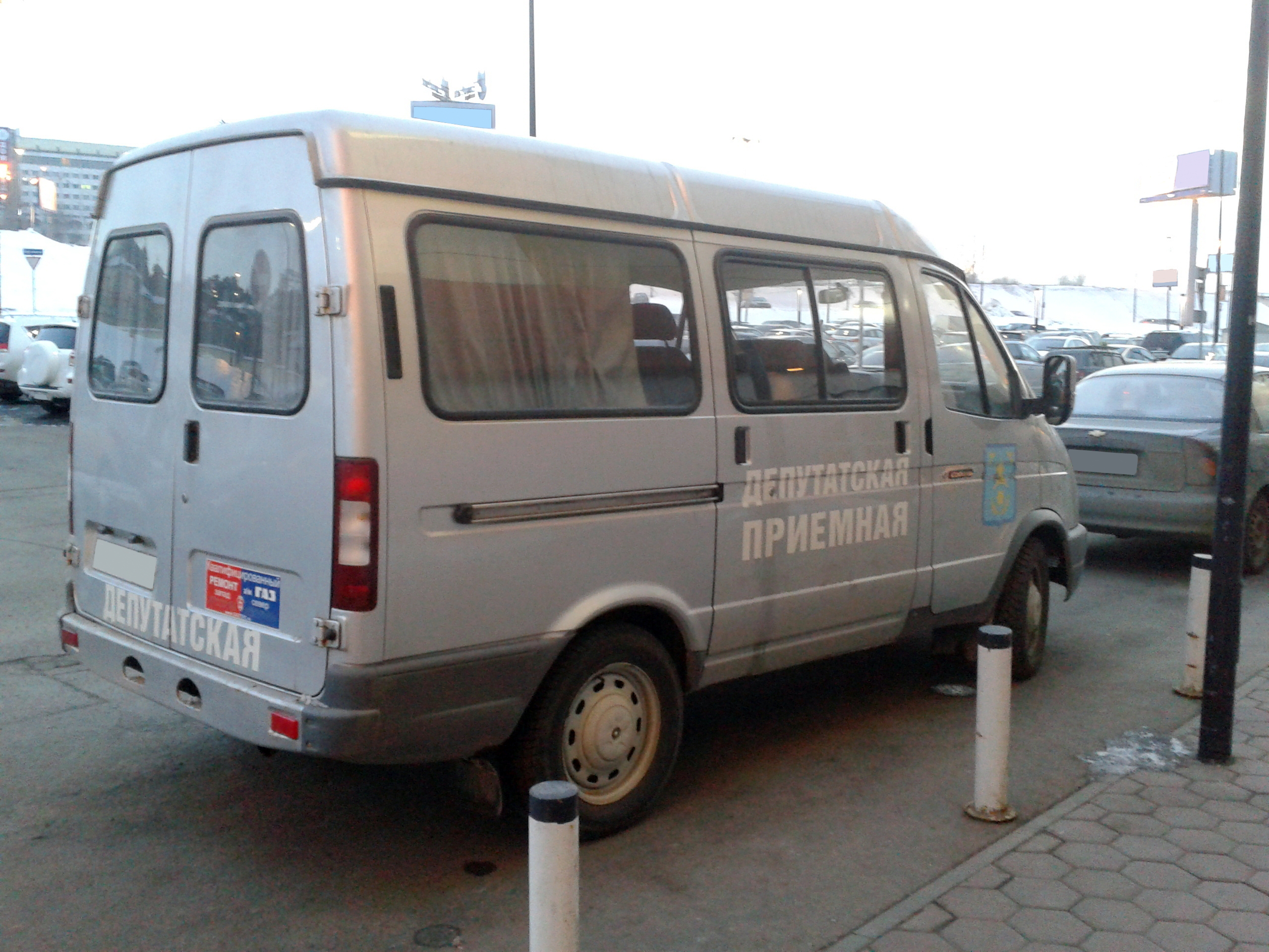 GAZ-22171 "Sobol" as parliamentary reception. Gas-fueled auto.